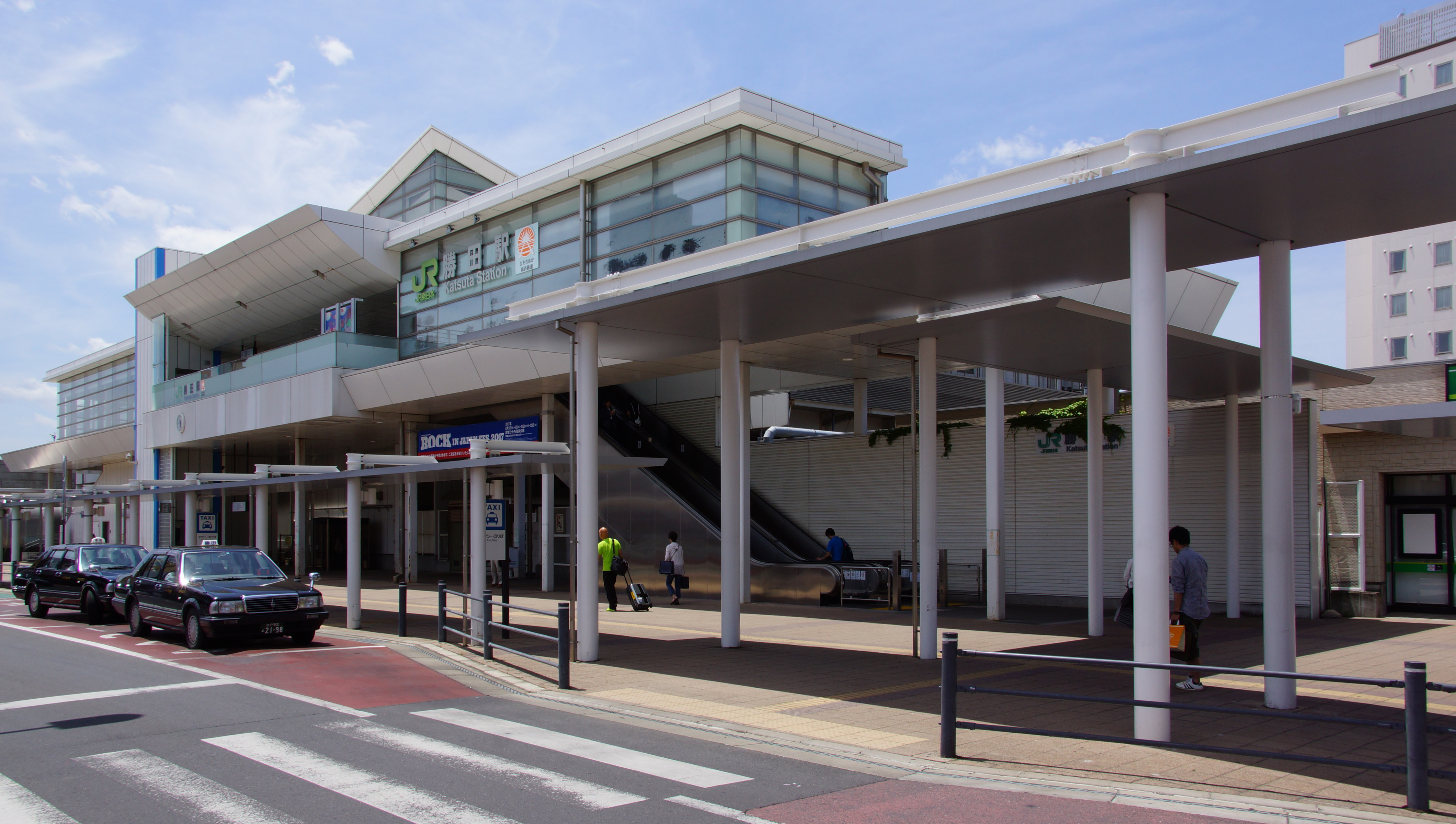 The east side of Katsuta Station on the Joban Line in Ibaraki Prefecture, Japan